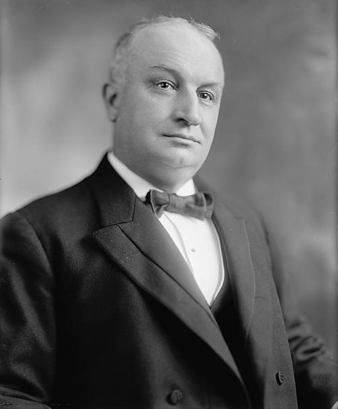 Charles A. Talcott, Congressman from New York